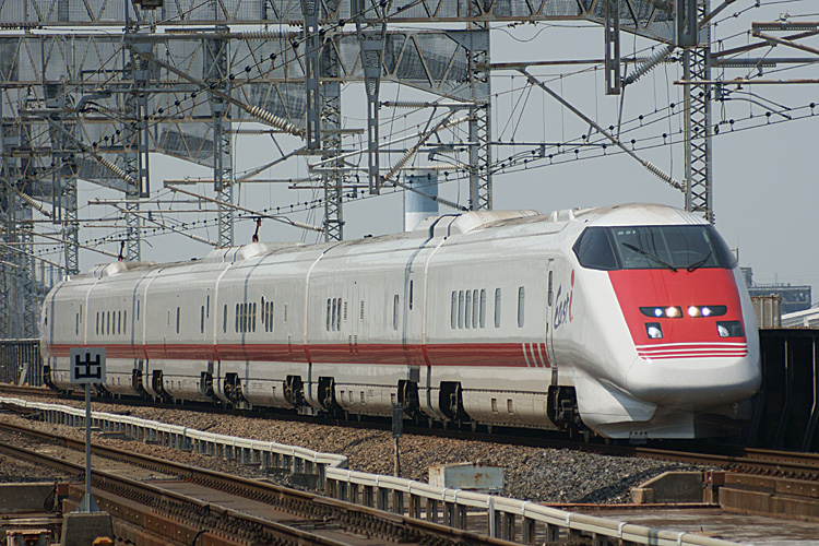 JR East Shinkansen Type E926 test train, "East-i".